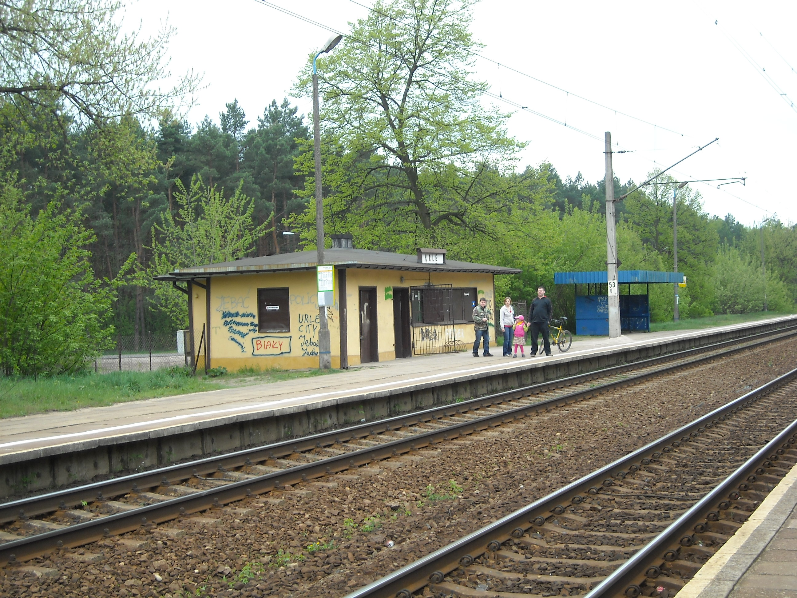 Urle train station in Poland.